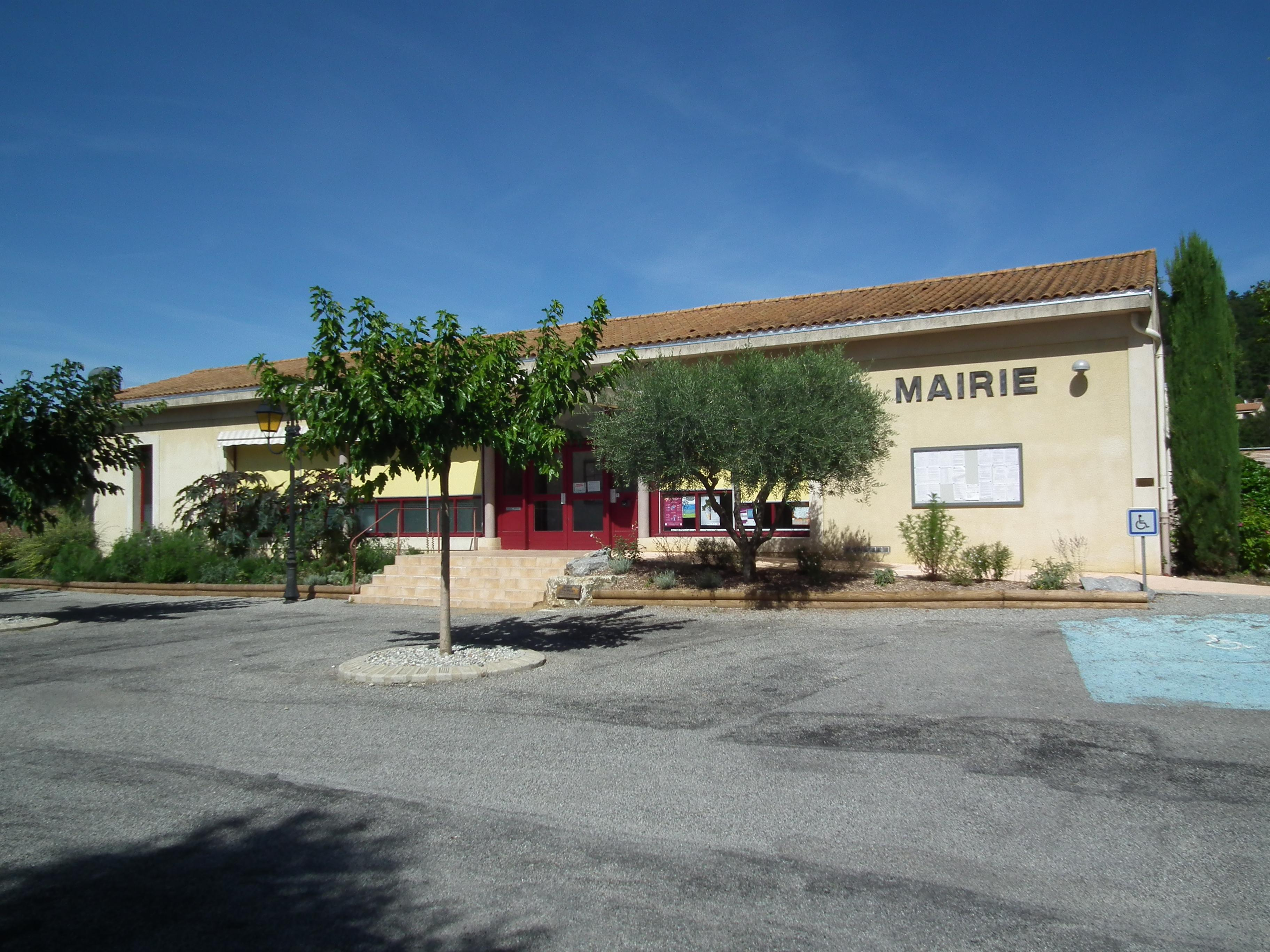 Town hall of Eurre - Drôme - France